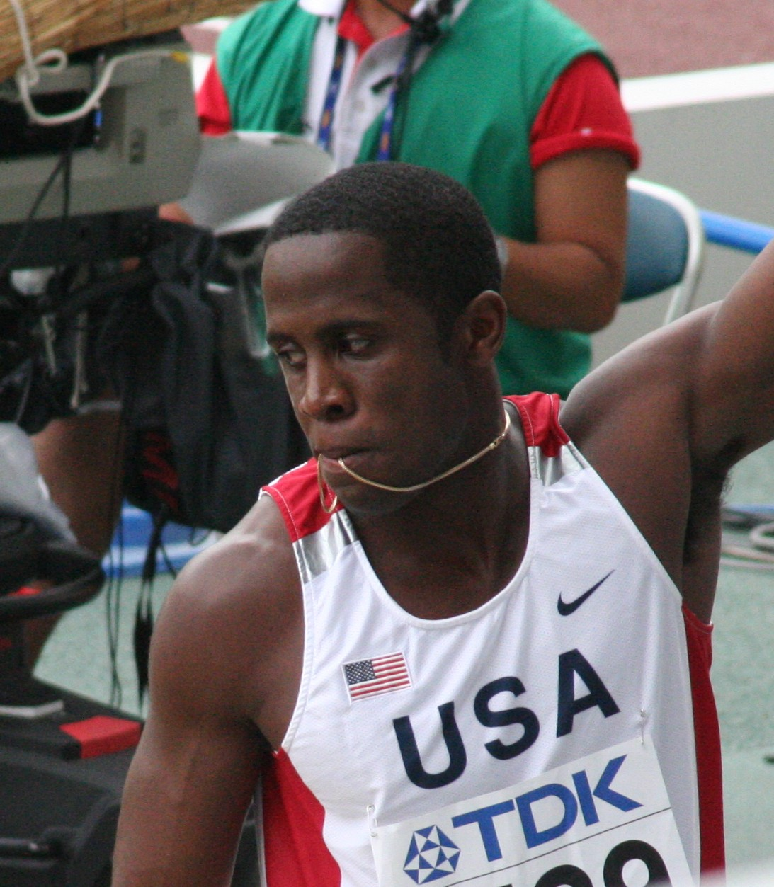 World Athletics Championships 2007 in Osaka - American long jumper Dwight Philips